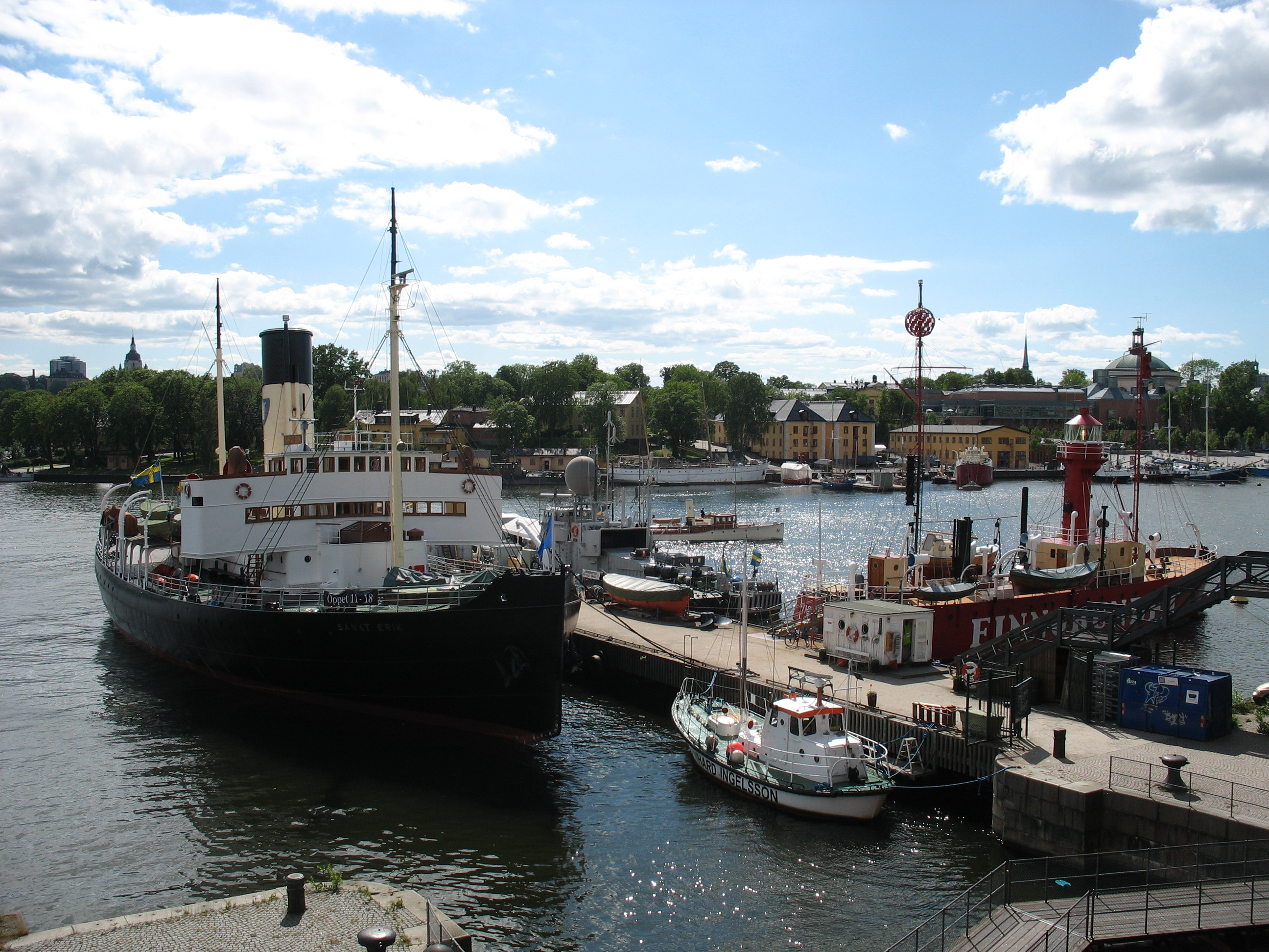 The four floating museum ships of the Vasa Museum; the ice breaker Sankt Erik, the lighthouse ship Finngrundet, the minelayer Spica and the rescue ship Bernhard Ingelsson